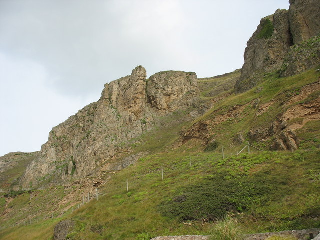 Crags at Maes y facrell